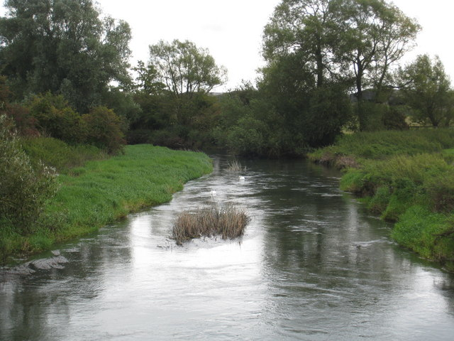 The Thames near Water Eaton House